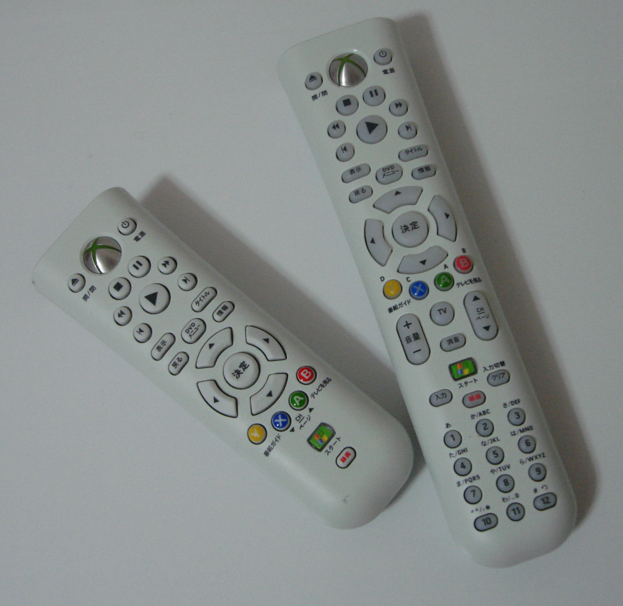 Xbox 360 Media Remote and Universal Media Remote